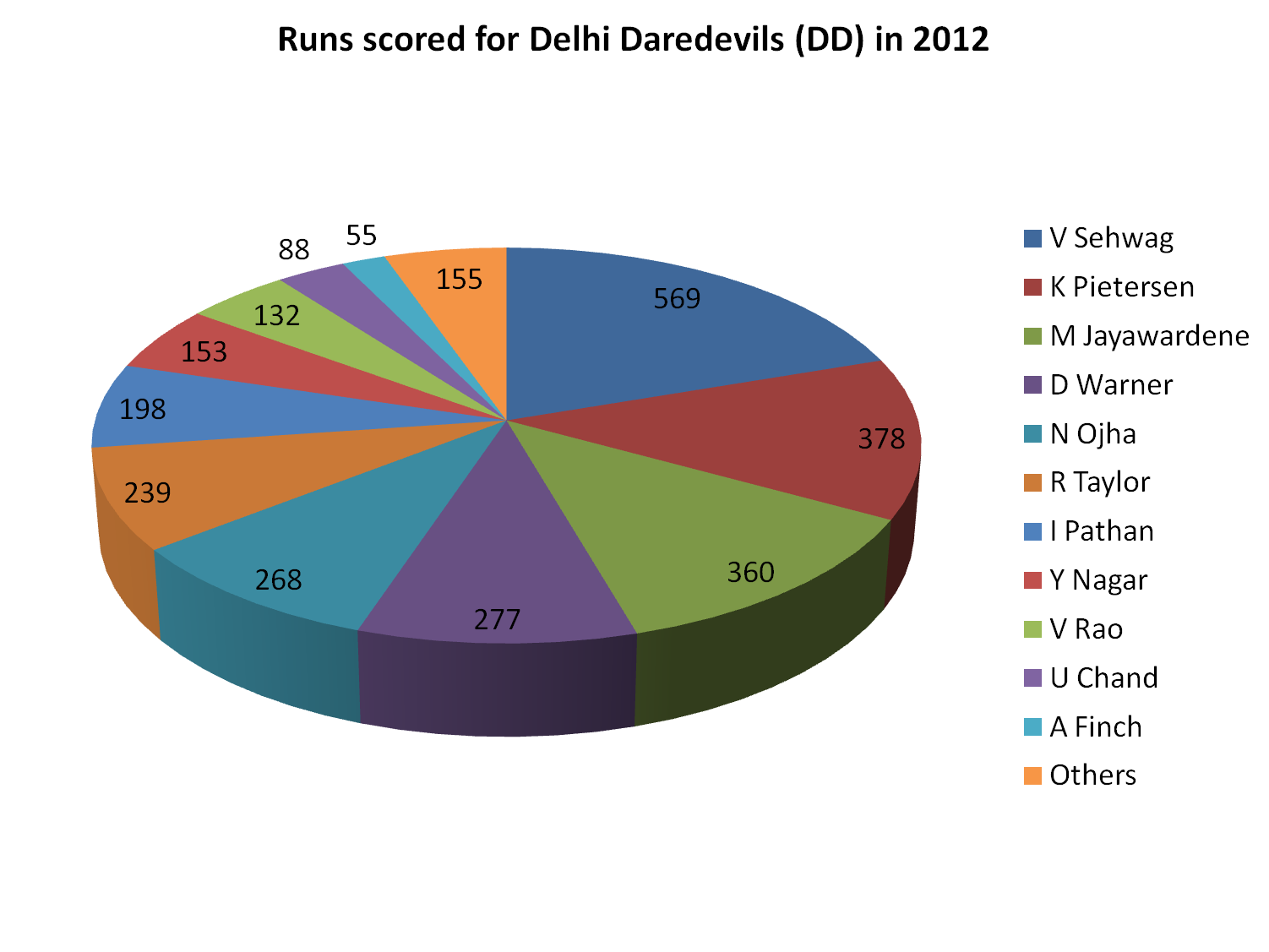 Player-wise overview of runs scored for Delhi Daredevils (DD) in 2012